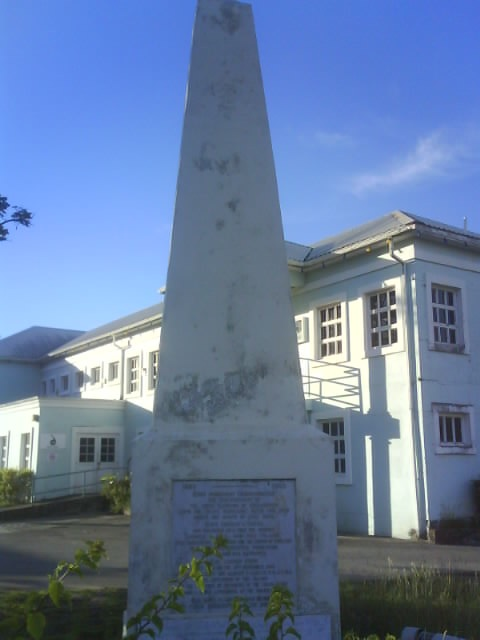 The monument which marks the initial claim of Barbados by the English in 1625, with initial settlement in 1627. (Due to writer's devil this date was erroneously recorded as 1605 in various books and on the plaque.)